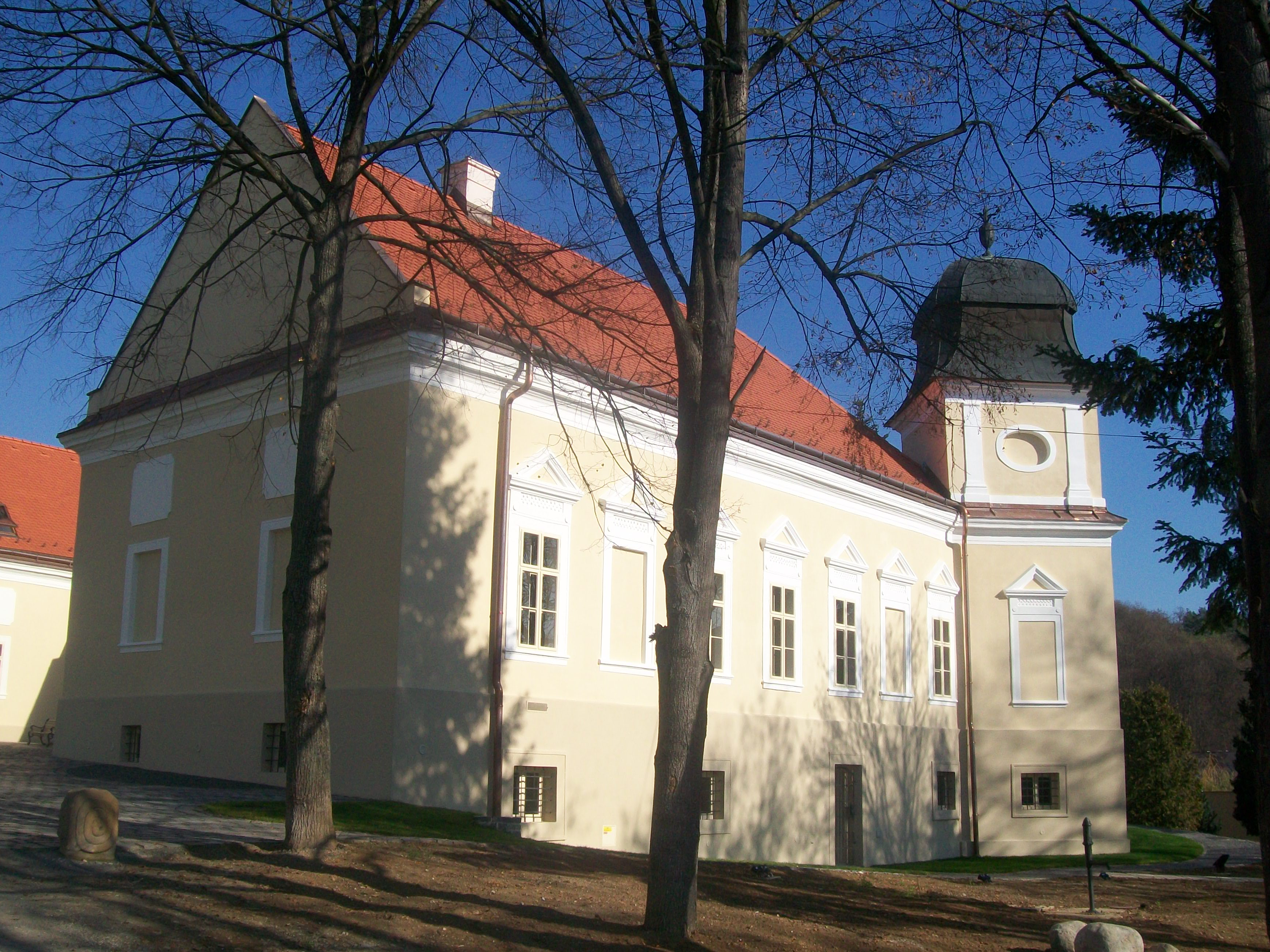 Imre Madach Rococo-classical Manor House from the 18. centurySlovenčina: Rokokovo-klasicistický kaštieľ Imre Madácha z 18. storočia